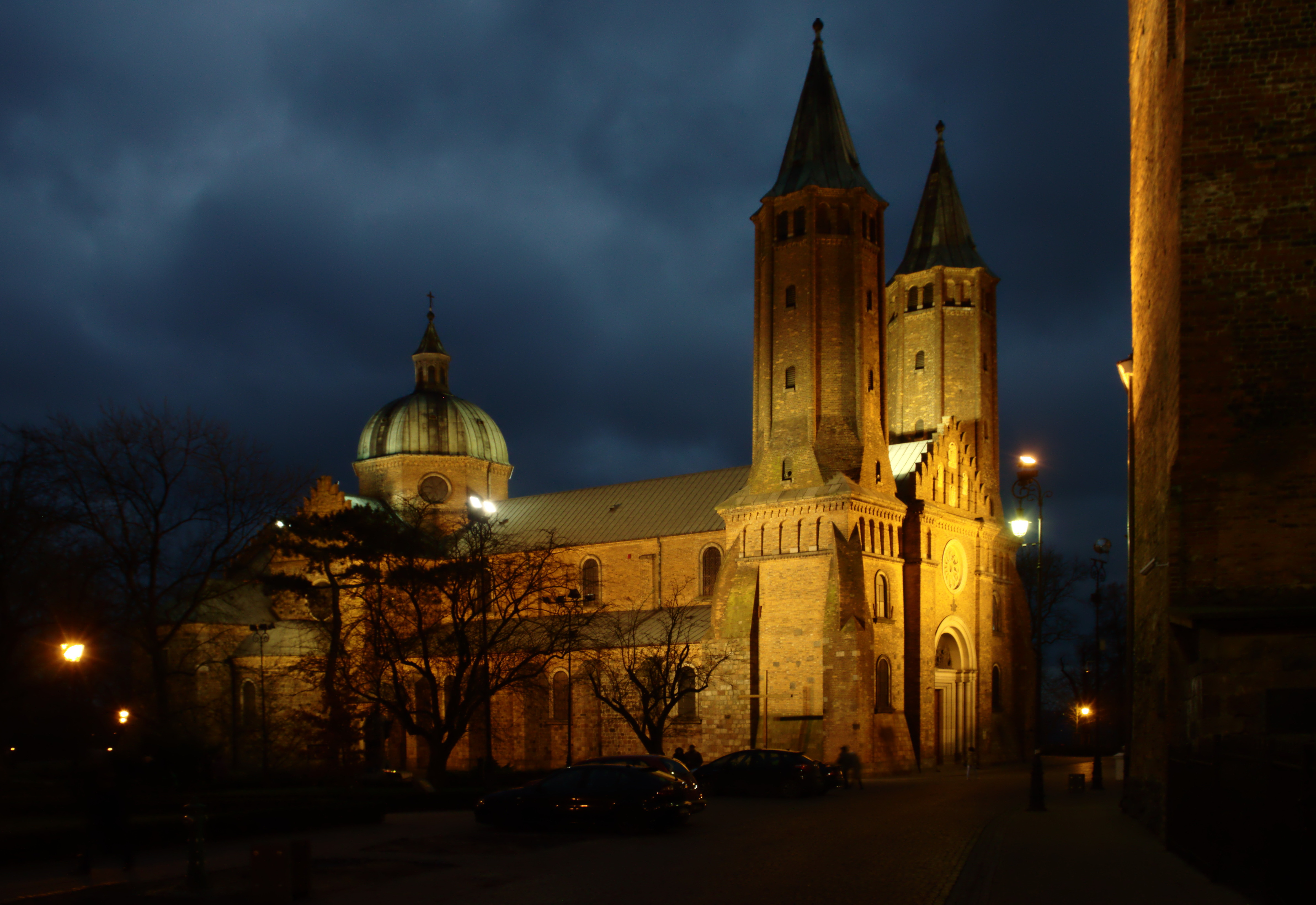 Płock Cathedral, external view